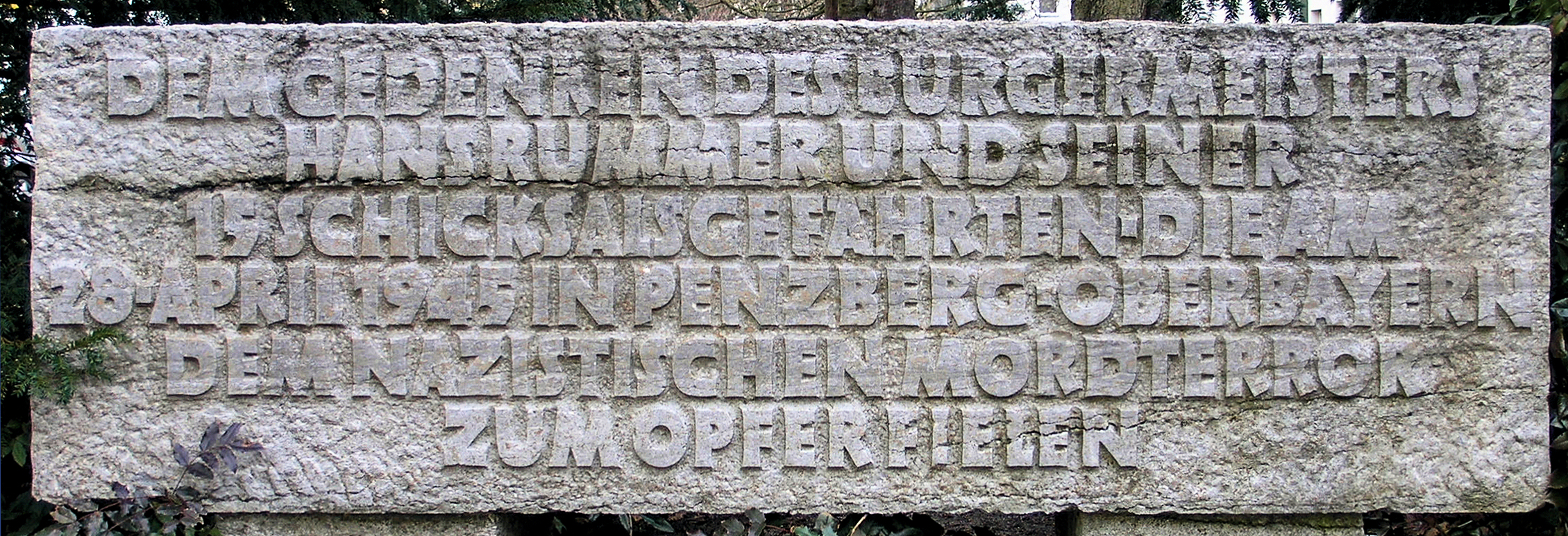 Memorial plaque, Hans Rummer, Münchener Straße ggü 16, Berlin-Schöneberg, Germany